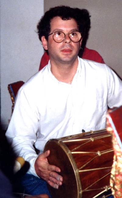 Michael Tenzer, circa 1992 rehearsing with Gamelan Sekar Jaya.